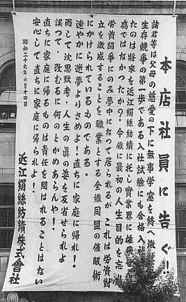 Omi-Kenshi Labor dispute